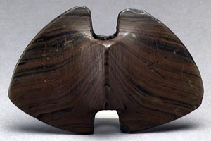 Archaic banner stone from Ohio. Archaic Period (10,000 - 2,500 years Before the Present)